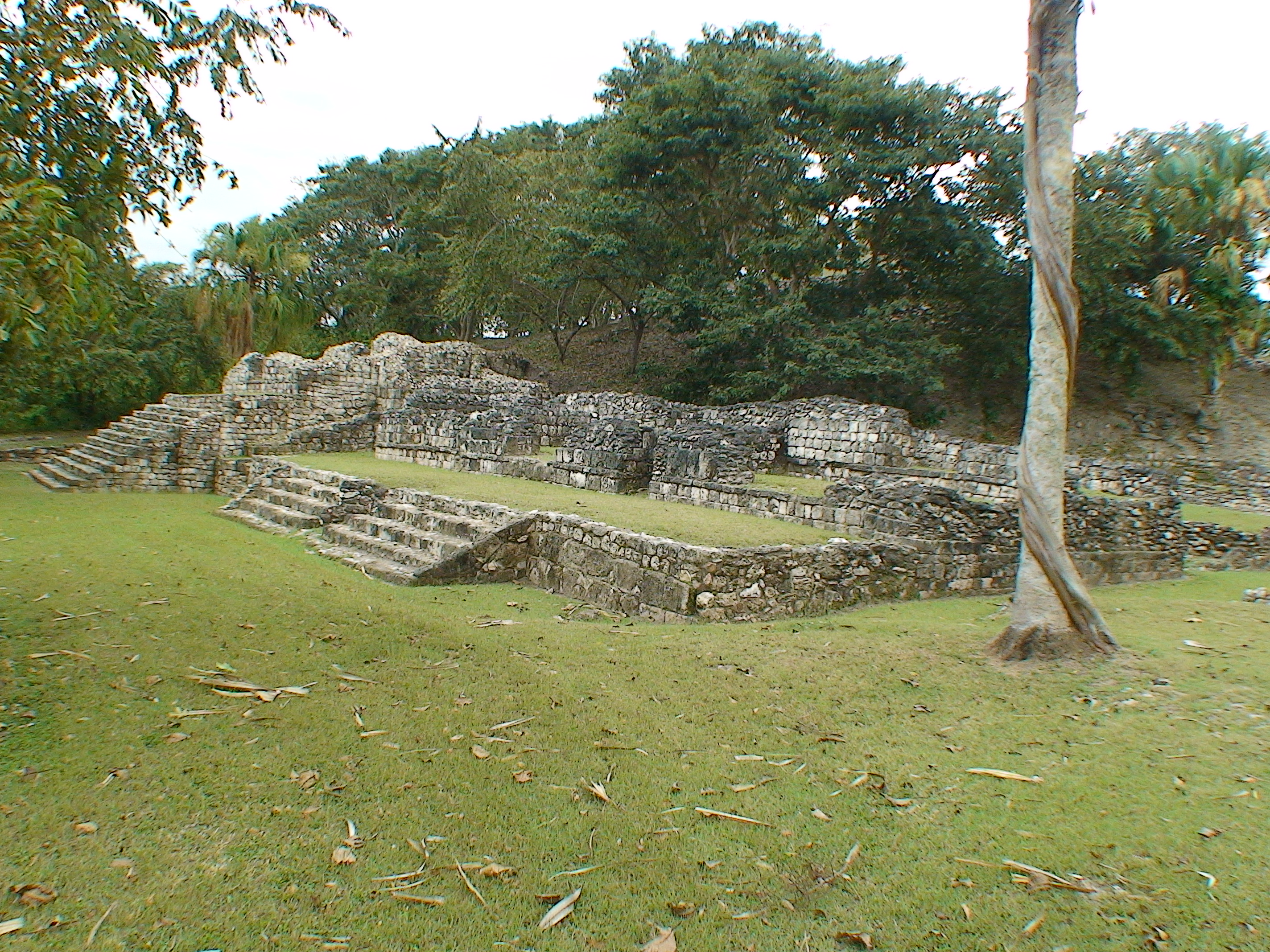 Itzamkanac, Campeche, Mexico: Palace